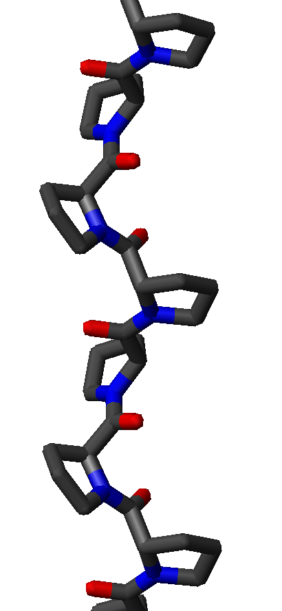 Side view of the poly-Pro II helix, made with MOLMOL.